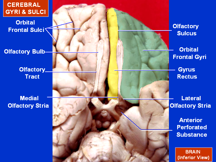 Map of Gryi of human left hemisphere.